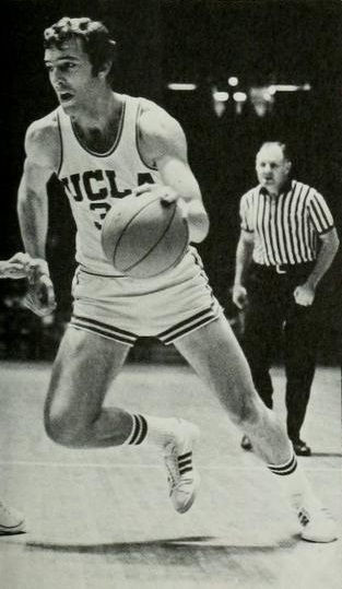 Photograph of UCLA basketball player Steve Patterson